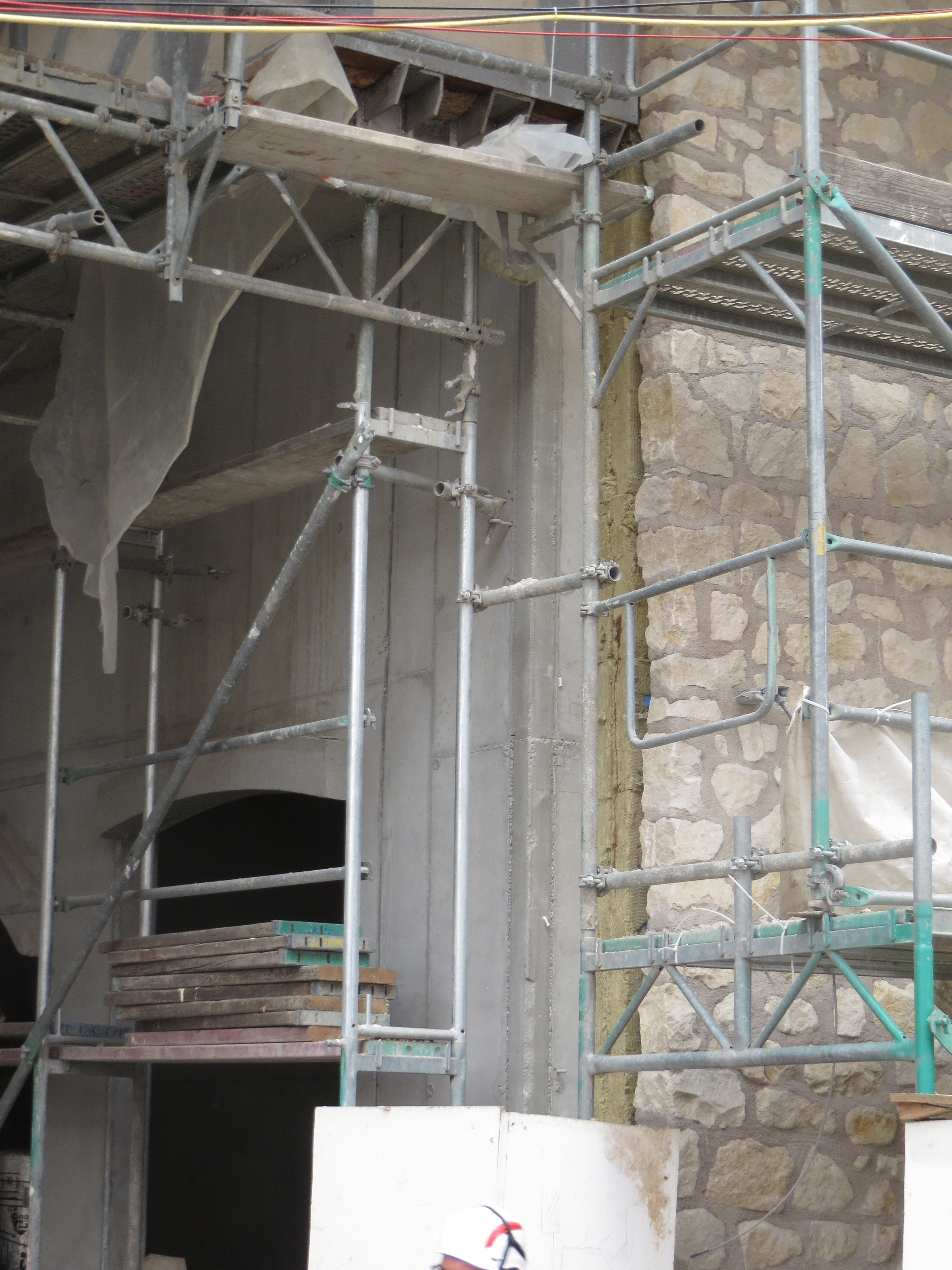 A building in the newly built "Old City" during construction: Modern concrete core, fake façade pretending to be old outside. Seen on the edge of Braubachstraße 21